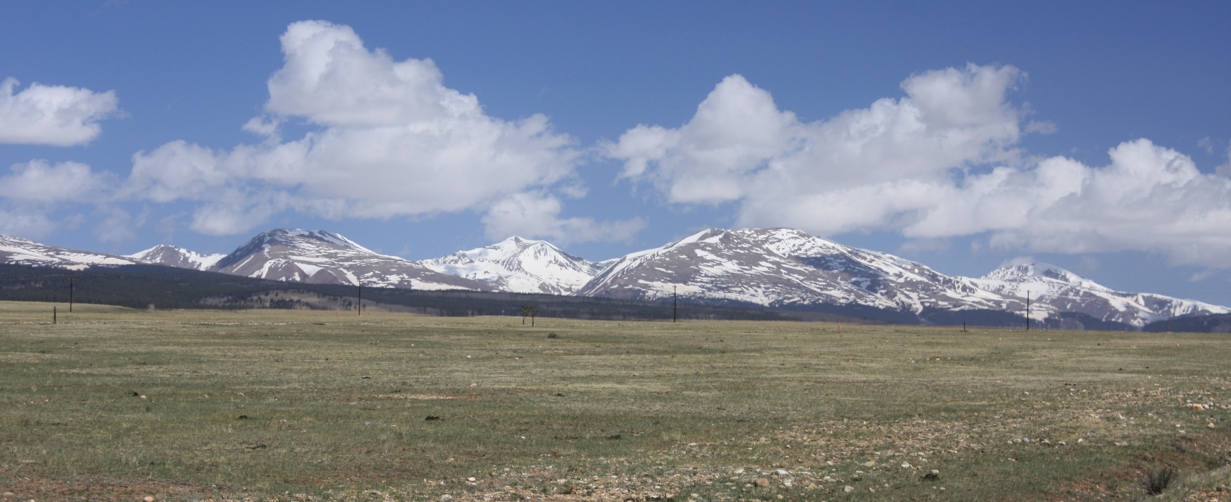 A late-morning view of the Tenmile/Mosquito Range taken from along U.S. 285, about eight miles south of Fairplay. (left to right) Mount Democrat, Mount Bross & Quandary Peak. Original photo has annotations with peak names.